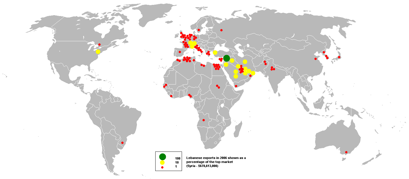 This bubble map shows the global distribution of Lebanese exports in 2006 as a percentage of the top market (Syria - $678,613,000). This map is consistent with incomplete set of data too as long as the top producer is known. It resolves the accessibility issues faced by colour-coded maps that may not be properly rendered in old computer screens. Data was extracted on 19th September 2007 from Based on :Image:BlankMap-World.png